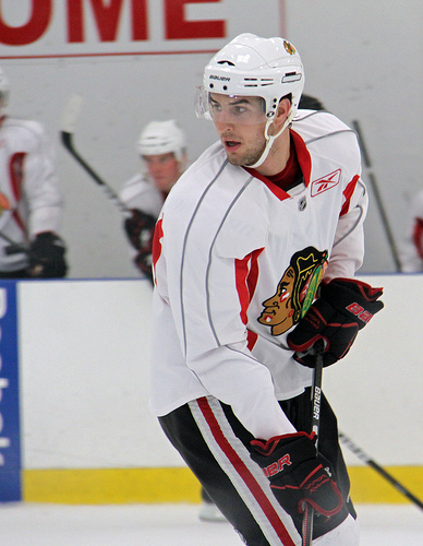 Kyle Beach at a practice for the Chicago Blackhawks